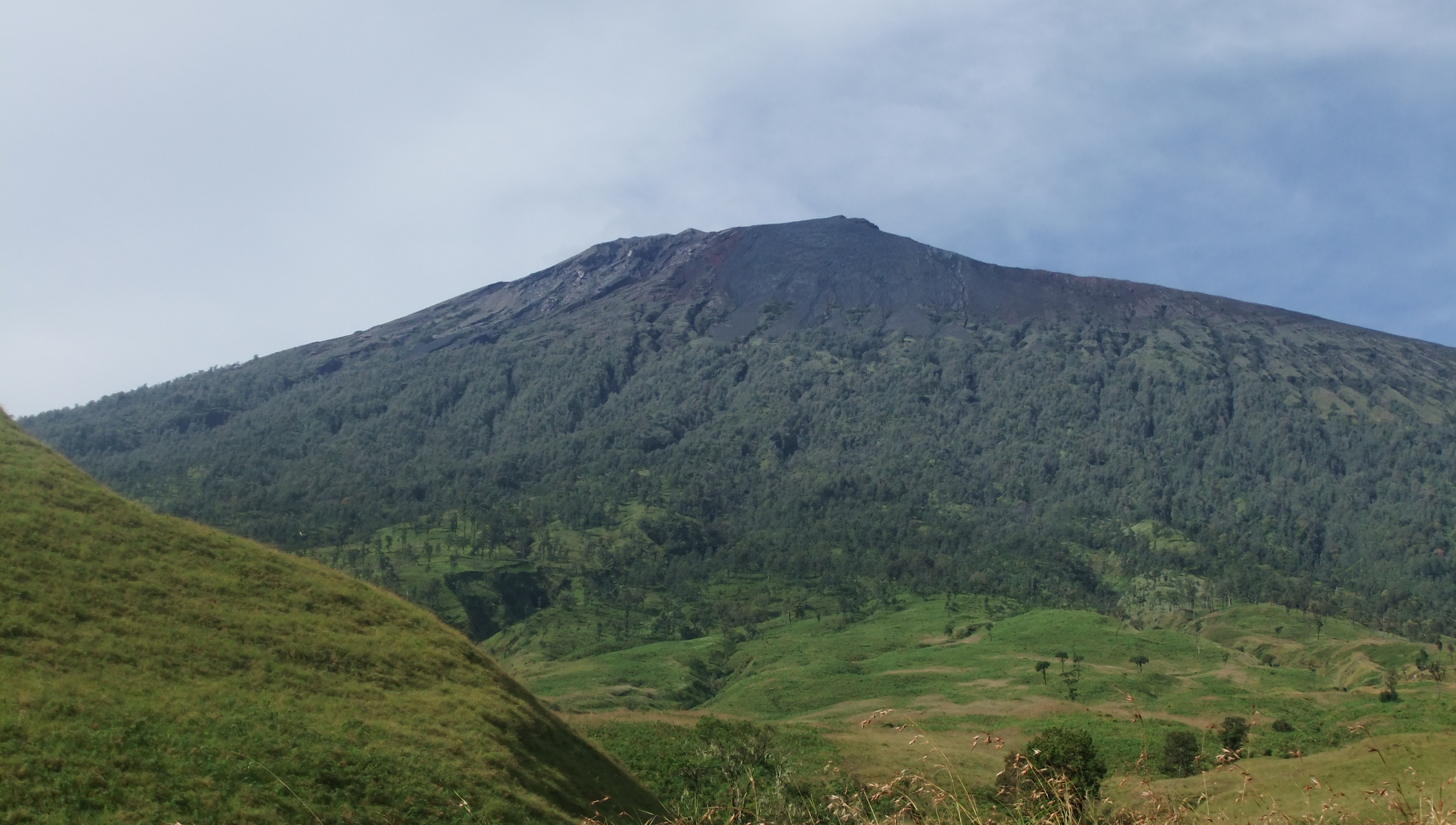 Mt. Rinjani view from Sembalun side